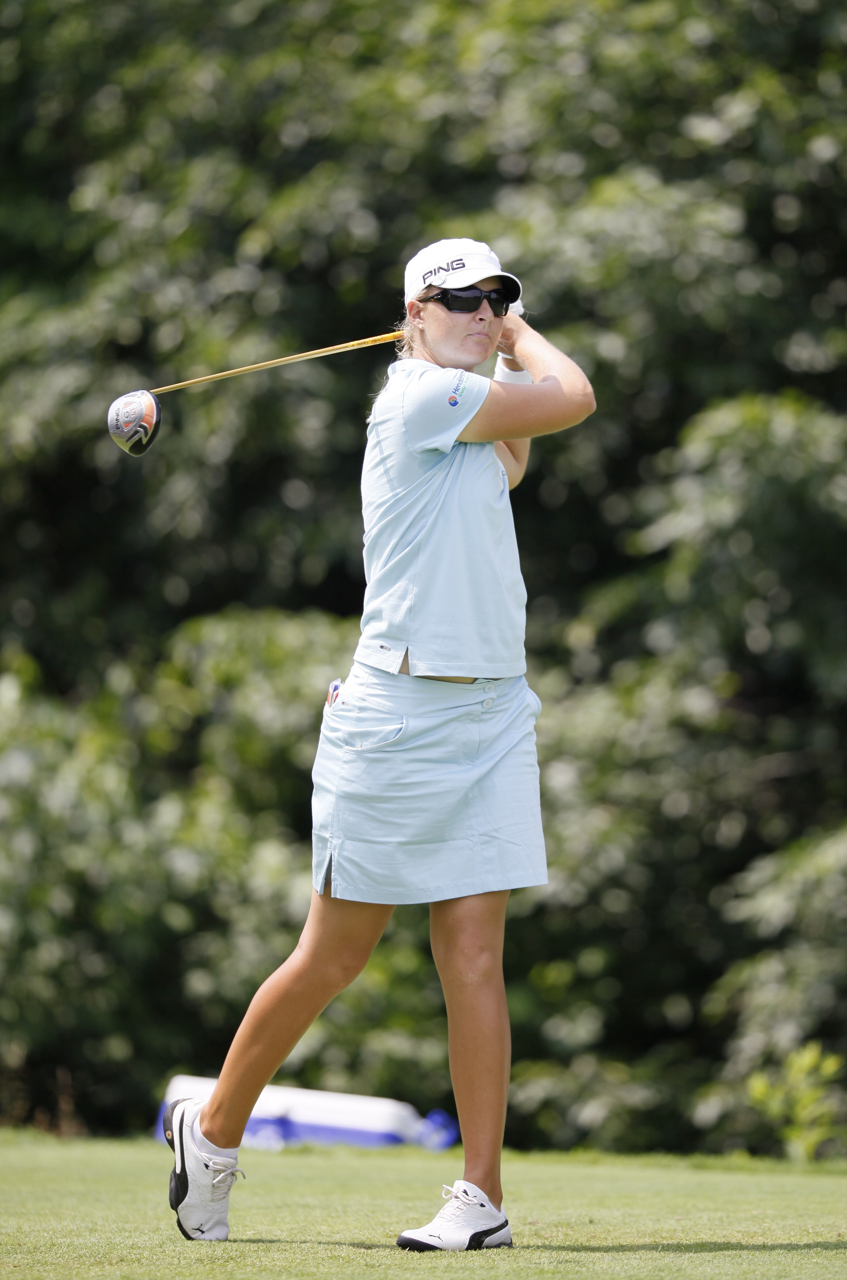 HAVRE DE GRACE, MD - JUNE 10: Anna Nordqvist (SWE) during practice round before 2009 LPGA Championship held at Bulle Rock Golf Course, on June 10, 2009 in Havre de Grace, Maryland. (Photo by Keith Allison)